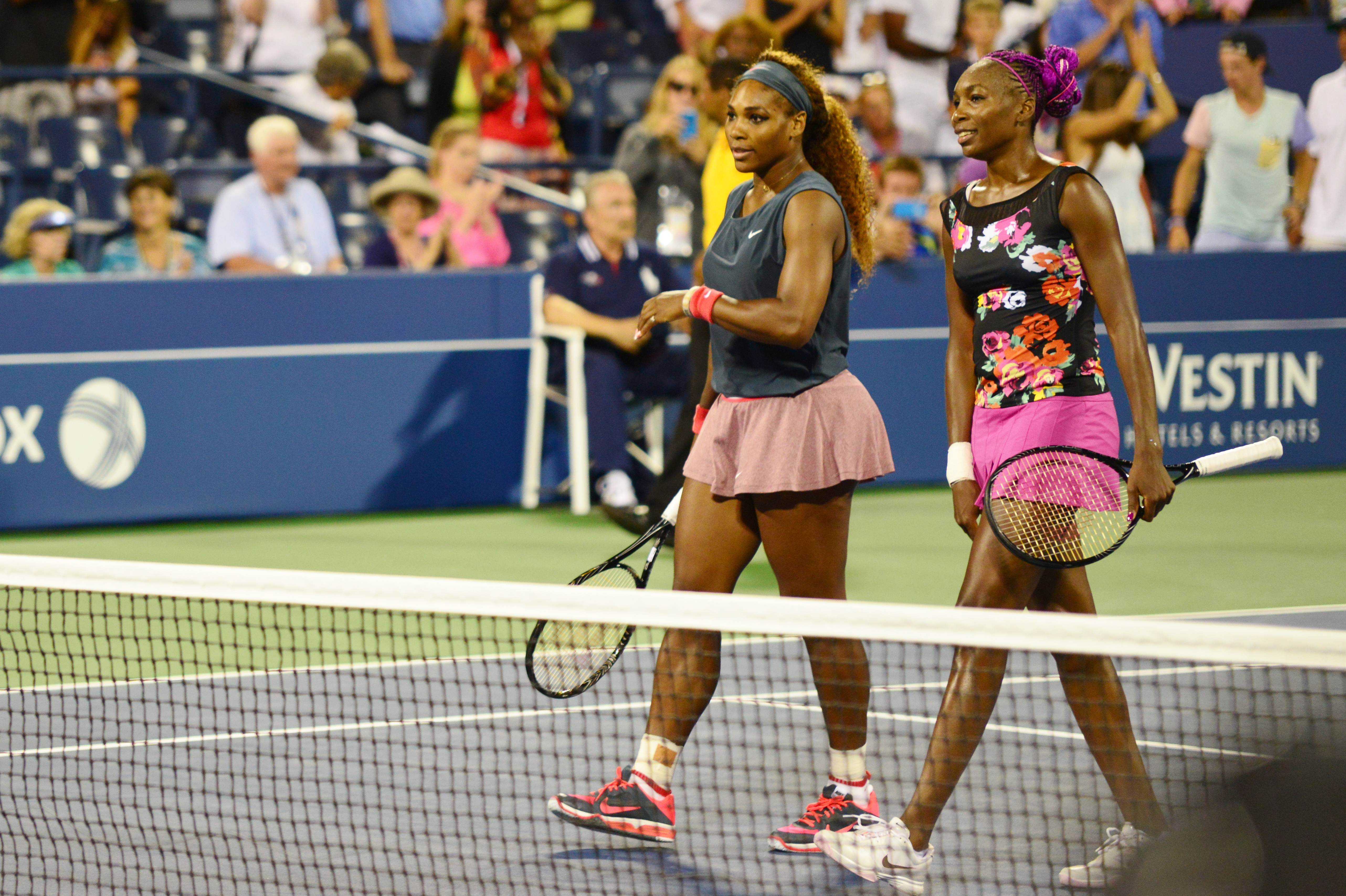 1st round doubles action from the Women's draw at the 2013 US Open. Serena and Venus Williams defeated Silvia Soler-Espinosa and Carla Suarez Navarro; 6-7(5), 6-0, 6-3